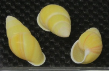 Amphidromus quadrasi in Endo Shell Museum